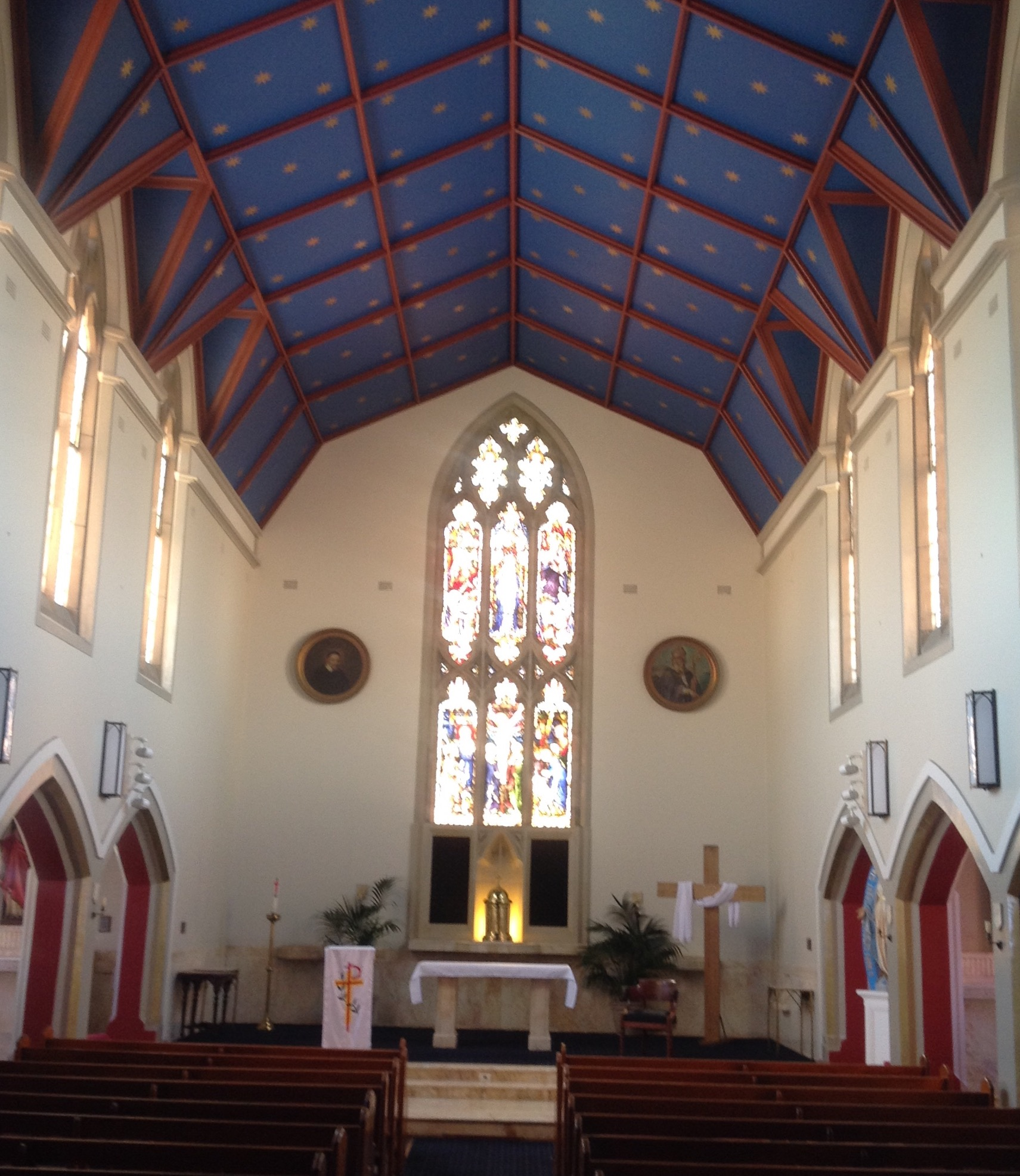 Interior of the Chapel of St Stanislaus' College, facing the sanctuary.